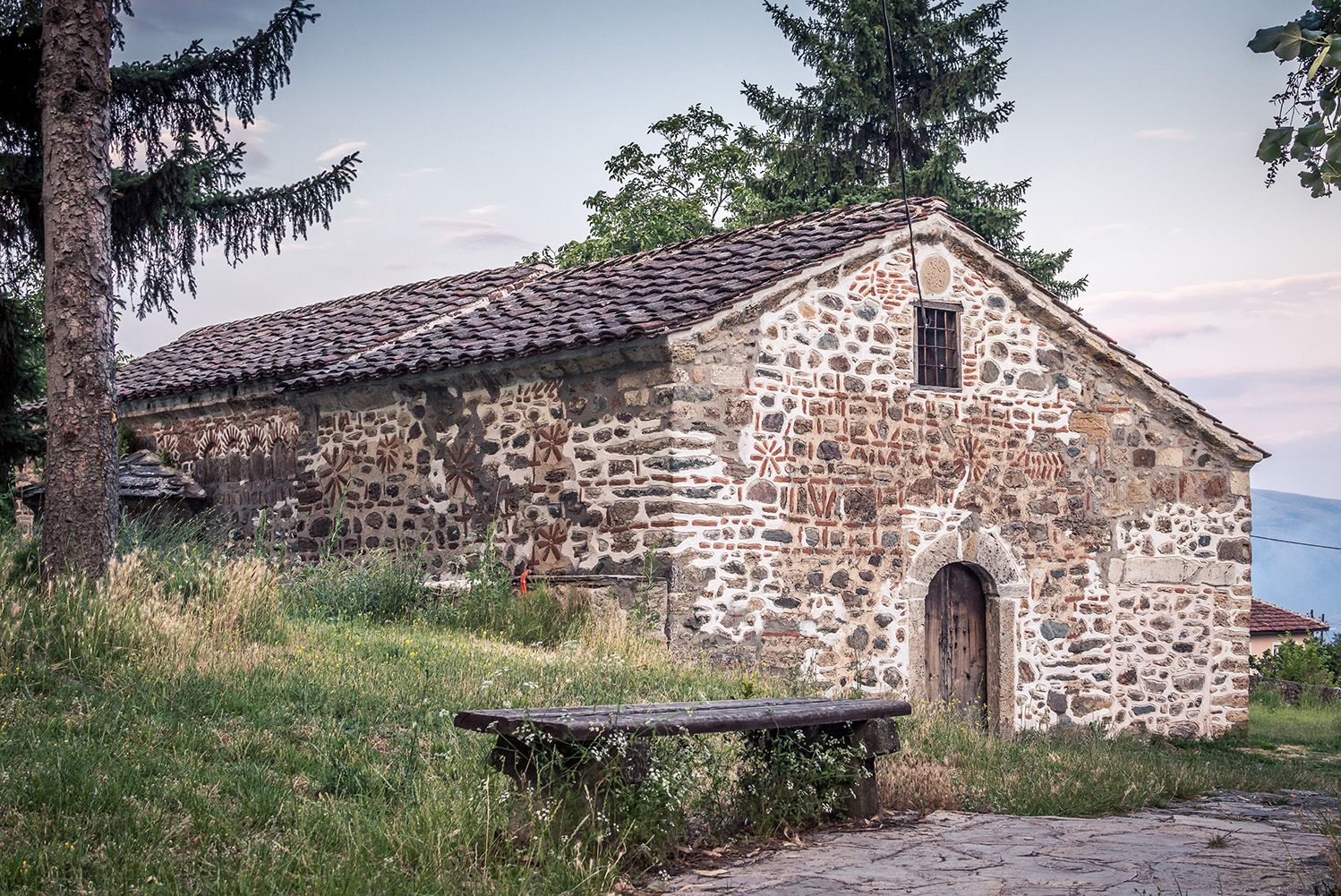 Church "Holy Mother of God" - Lesok, Tetovo, Macedonia